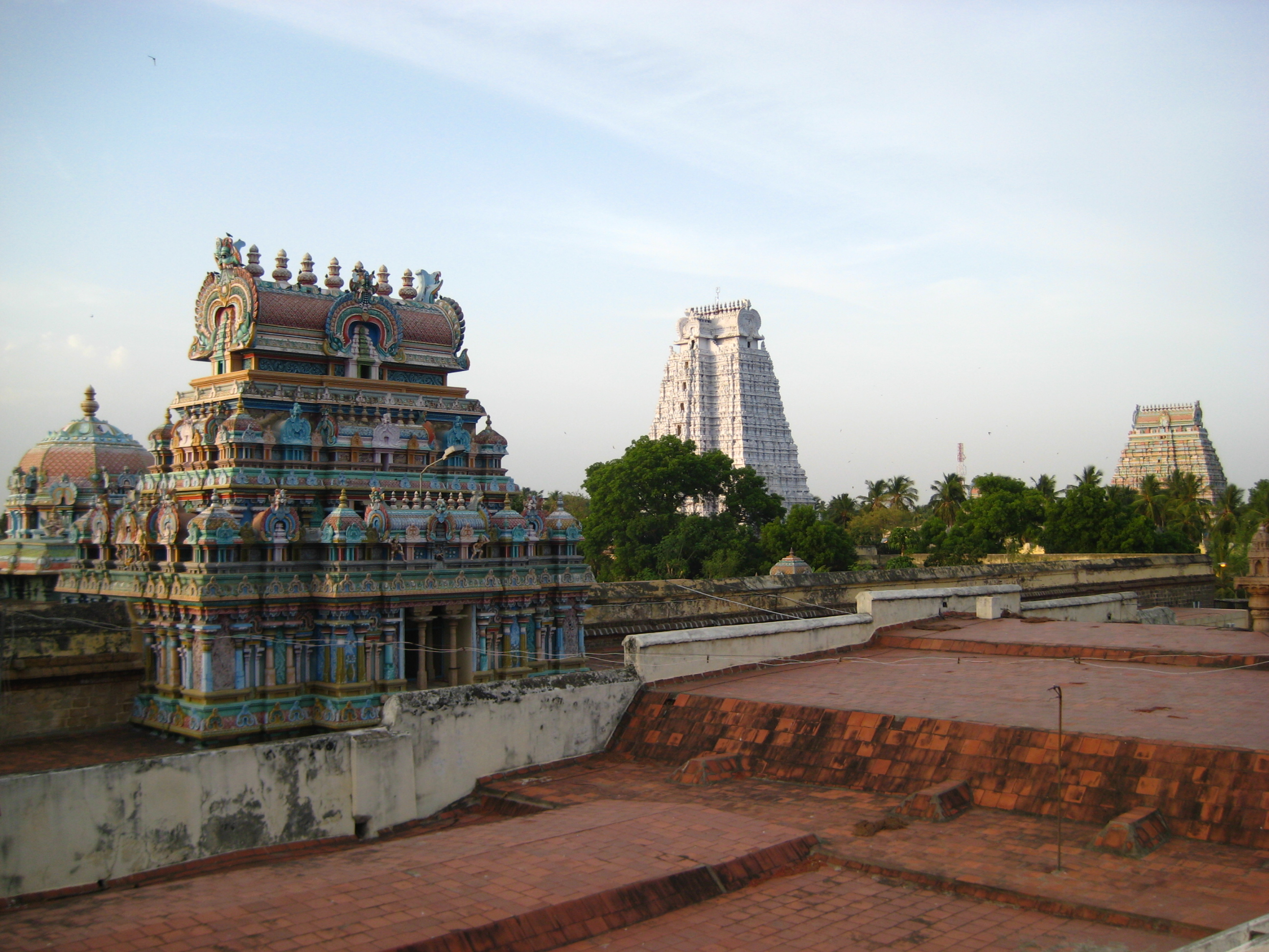 Sri Ranganathasvamy temple in Tiruchirapalli.